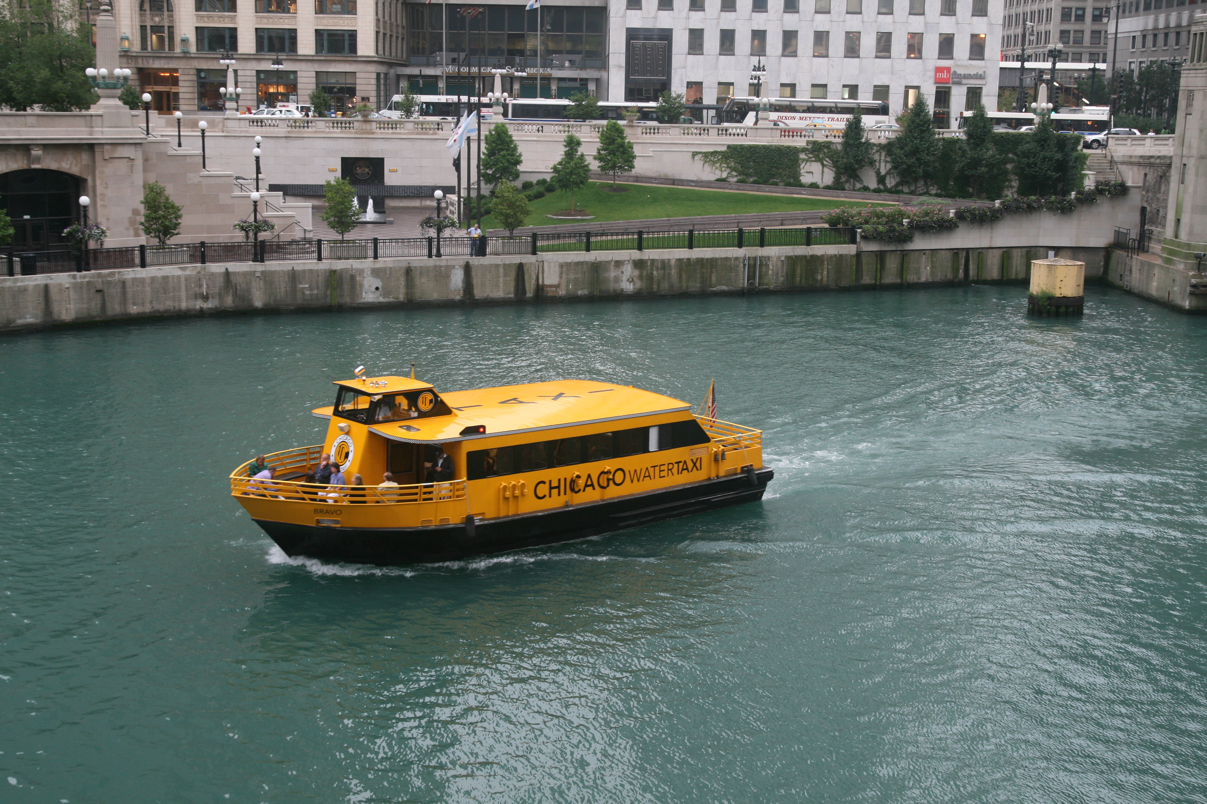 A yellow water taxi on the Chicago River. The Chicago Water Taxi is operated by the family owned company Wendella Sightseeing Co. In 1962 they started a rush hour commuter service, between Michigan Avenue and the Northwestern Railroad Station, enhancing transportation options for the city’s thousands of commuters by utilizing the resources of the Chicago River. The Chicago Water Taxi, also known as the RiverBus, provides seven-day a week water transportation service to thousands of commuters. Since 1962, the RiverBus has carried an estimated 4 million rail commuters on the Chicago River.